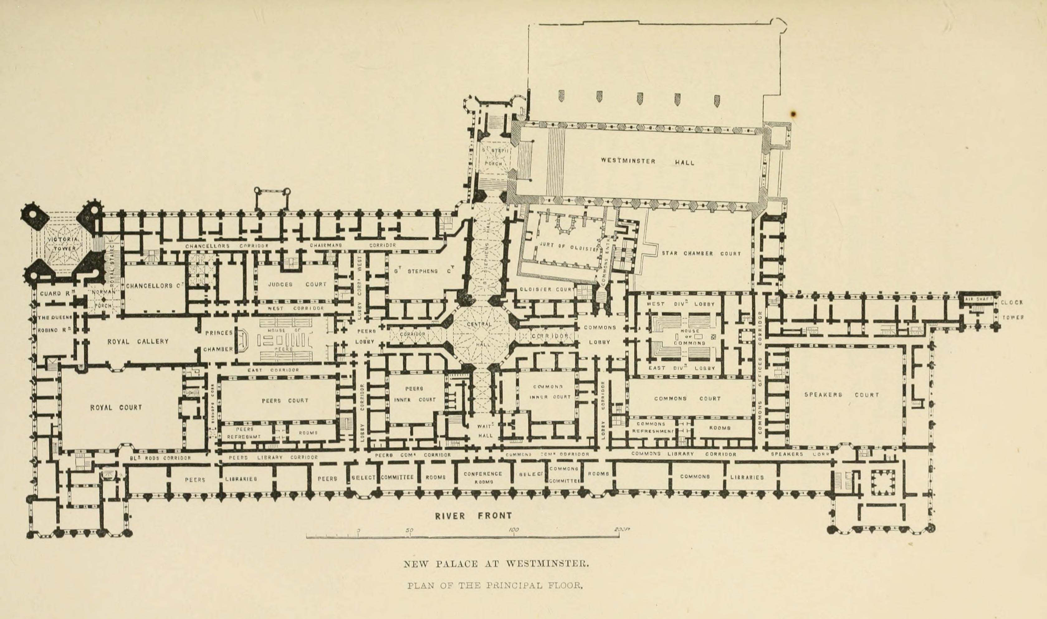 Palace of Westminster, Plan